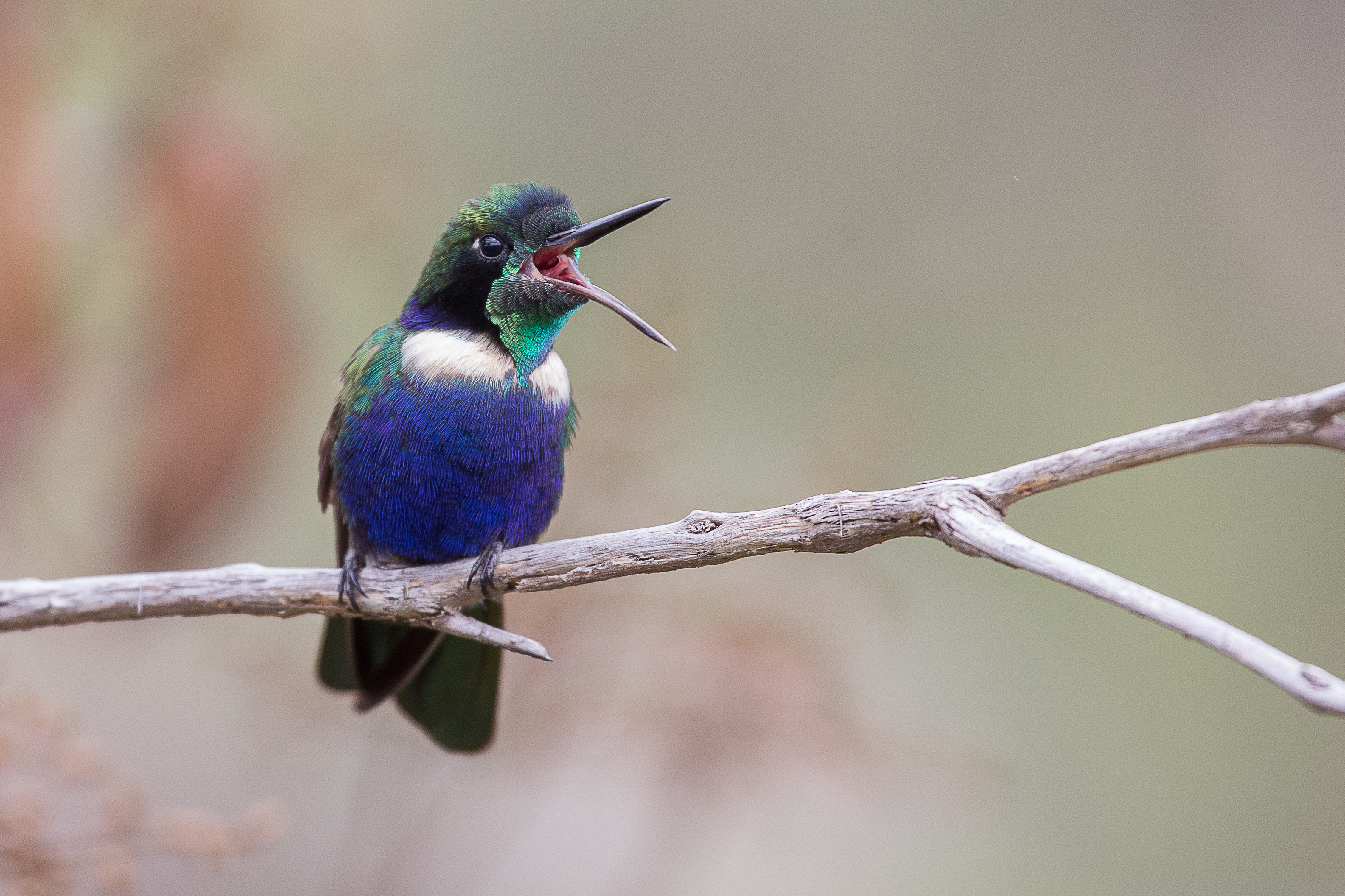 Hyacinth visorbearer (Augastes scutatus), one of the only two species of birds endemic to the Brazilian "cerrado", restricted to the rocky fields of the Espinhaço Mountain Range. This one was found at Serra do Cipó, MG, Brazil.